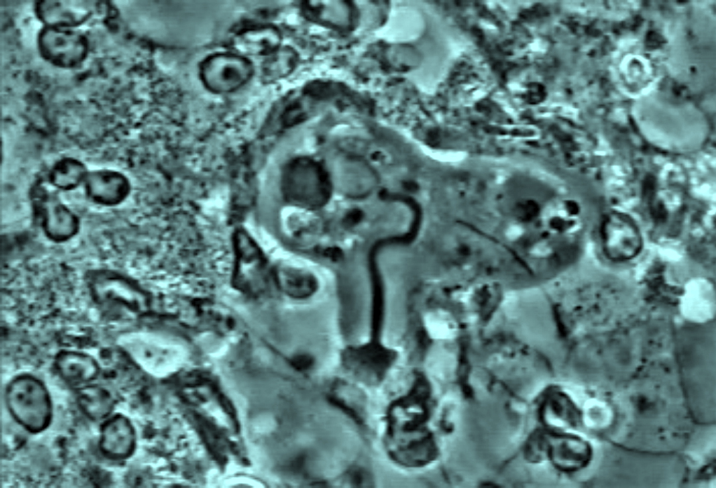 Exonucleophagy - Amiba Entamoeba gingivalis phagocytise PMN white cell in periodontal biofilm of patient arboring chronic periodontitis